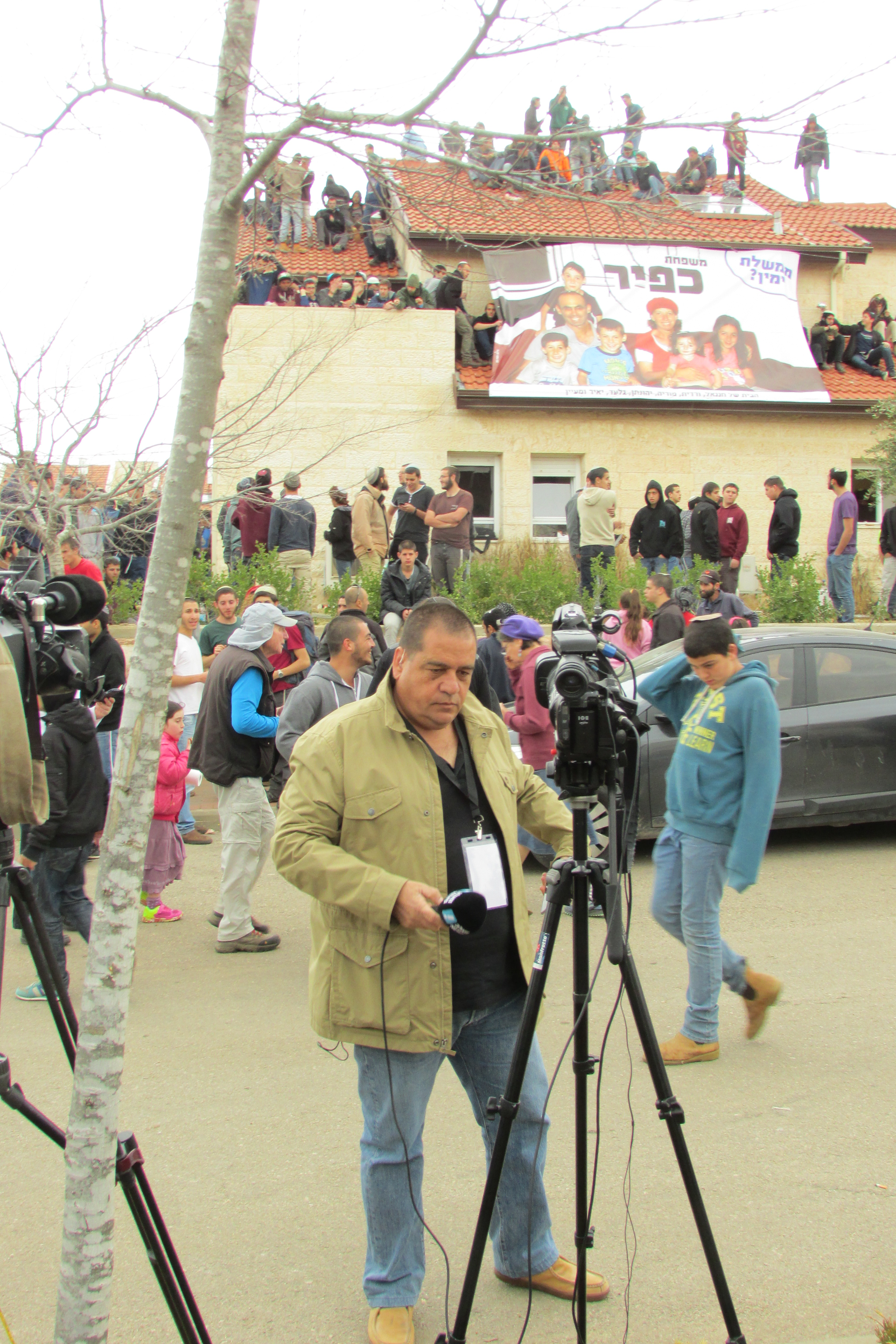 Demolishing of the nine houses.